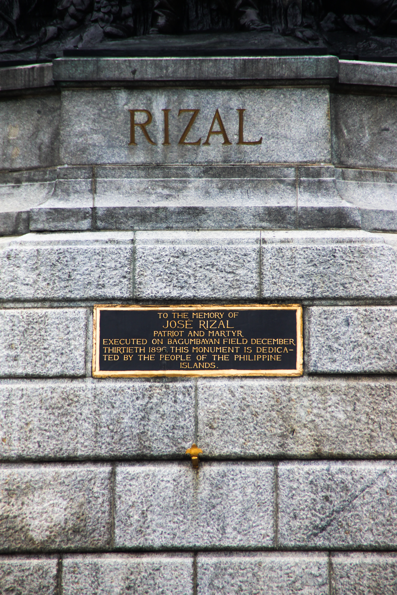 Close-up view of the (front) marker at the base of the Rizal Monument, Rizal Park, Manila, Philippines. Below the marker is a hook where floral wreaths are attached during celebrations of Rizal Day and Philippine Independence Day, and also during visits by heads of states.